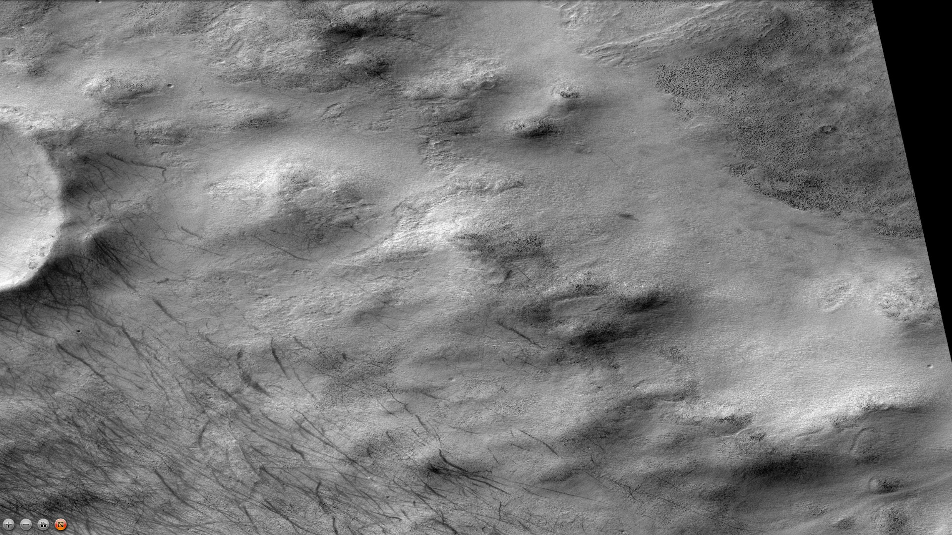 West side of Campbell Crater showing dust devil tracks, as seen by ctx